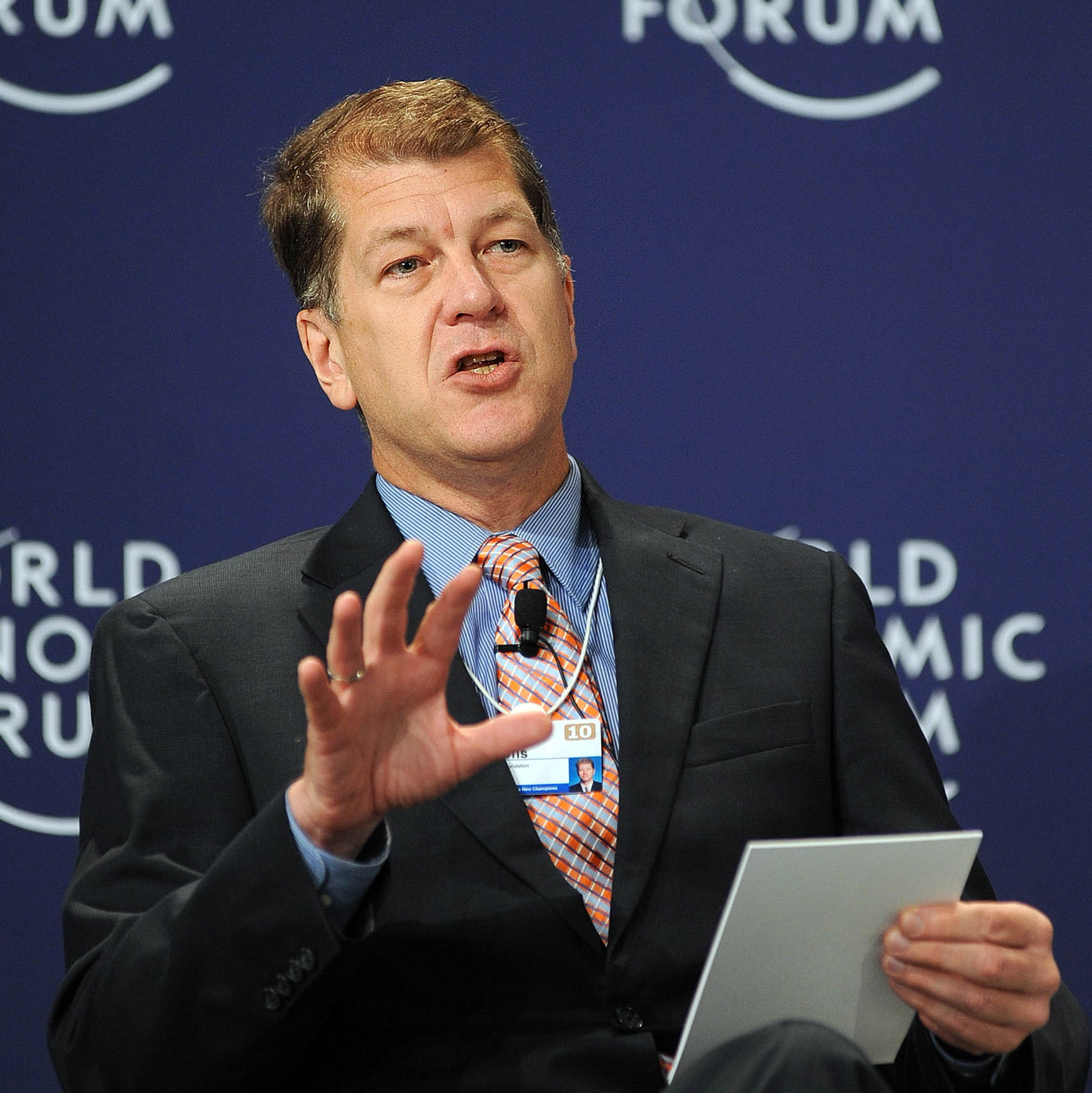 TIANJIN/CHINA 14SEP10 - Steven Clemons, Director, American Strategy Programme, New America Foundation, leads the "America in the Asian Century" session at the Annual Meeting of the New Champions in Tianjin, China, September 14, 2010. Copyright World Economic Forum /Adam Nadel